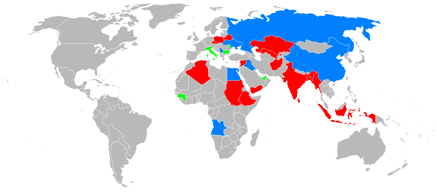 World map of Antonov An-12 operators